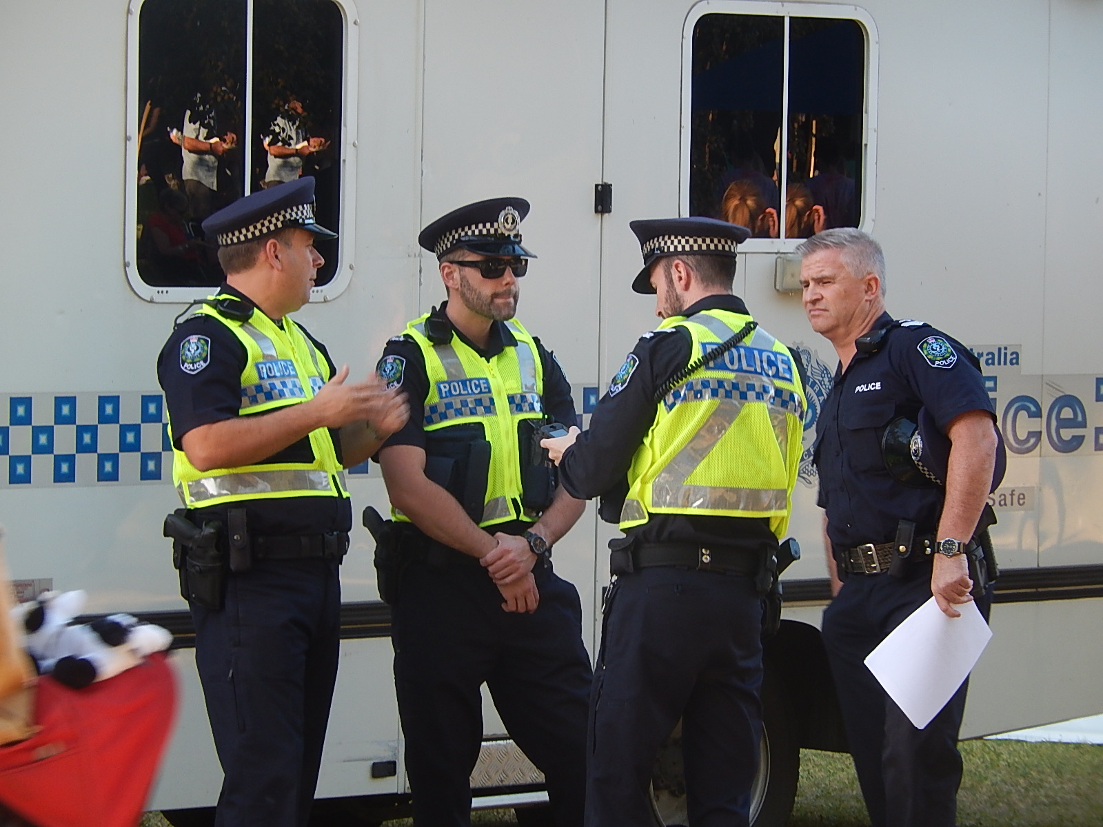 Police Conversation